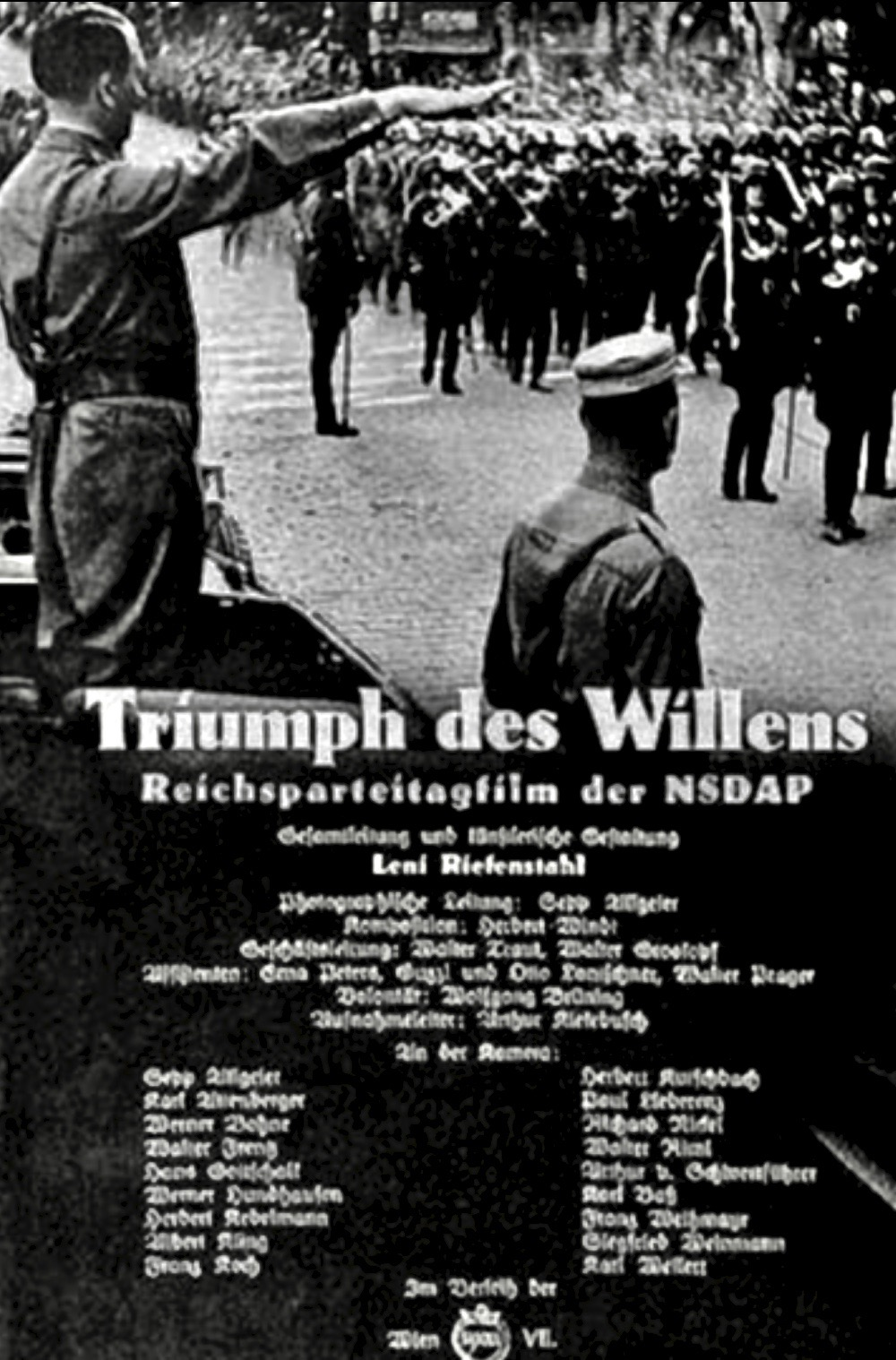 1934: Movie poster with the announcement of the Nazi Rally movie Triumph of the Will (titled by Hitler) with the names of its director Leni Riefenstahl and the cameramen. To view this movie got compulsory for Germany's pupils. The poster contains the credits – Leni Riefenstahl, Sepp Allgeier, Herbert Windt, …